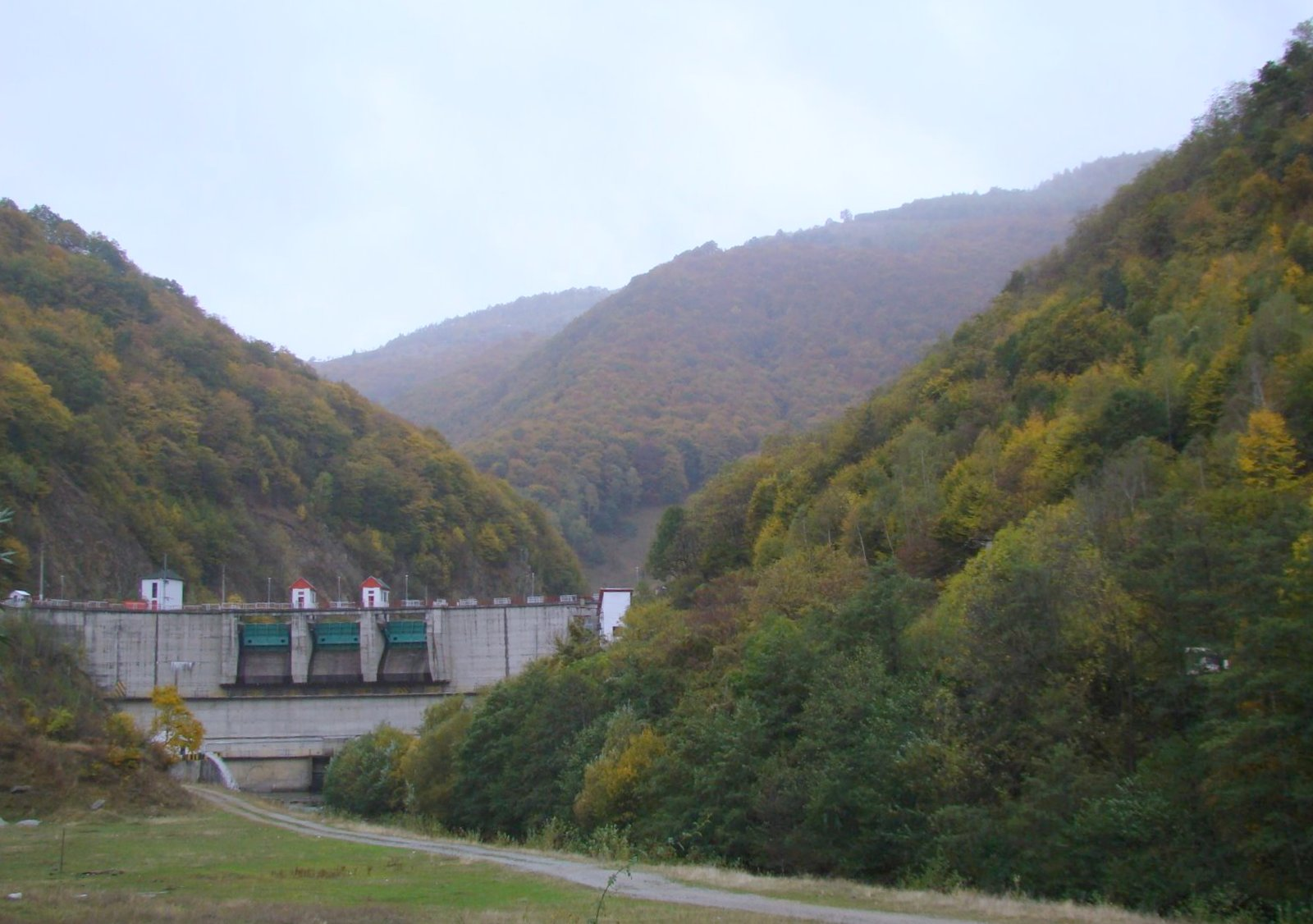 Obrejii de Căpâlna dam, Alba county, Romania